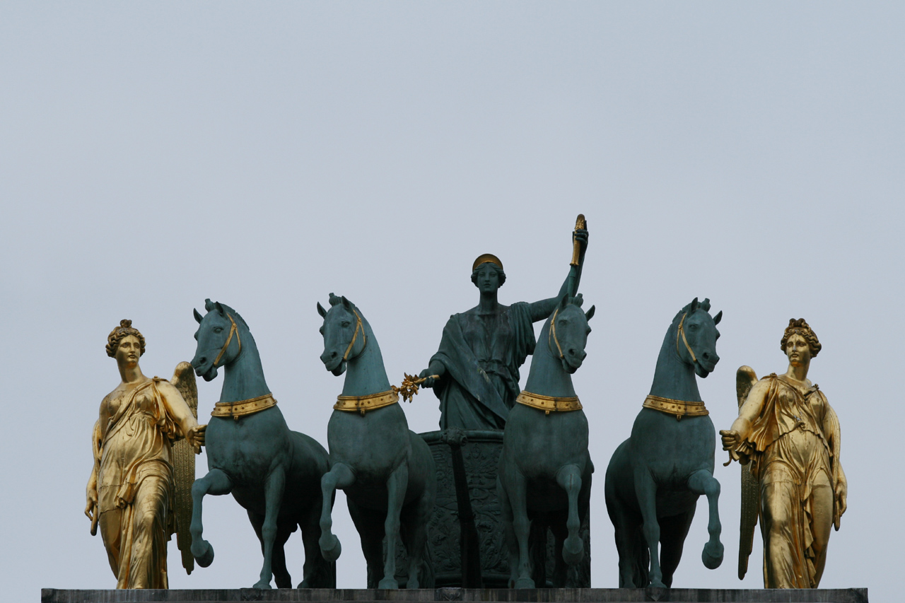 Peace riding in a triumphal chariot, by François Joseph Bosio (1768–1845). Bronze, Arc de Triomphe du Carrousel, 1828.